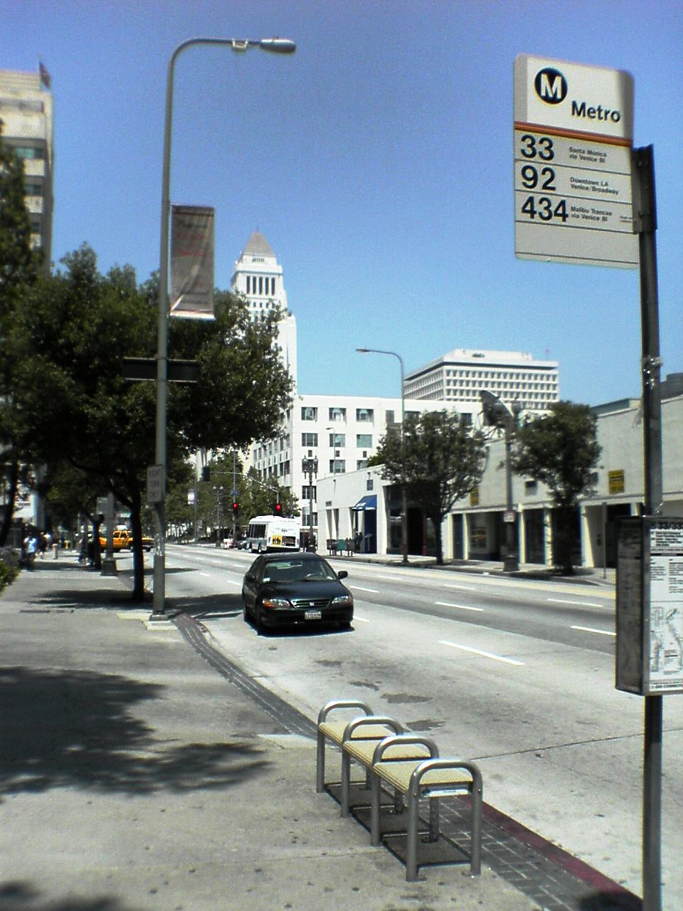 Bus stop on Spring Street (between 2nd and 3rd Streets), LA, CA, USA.